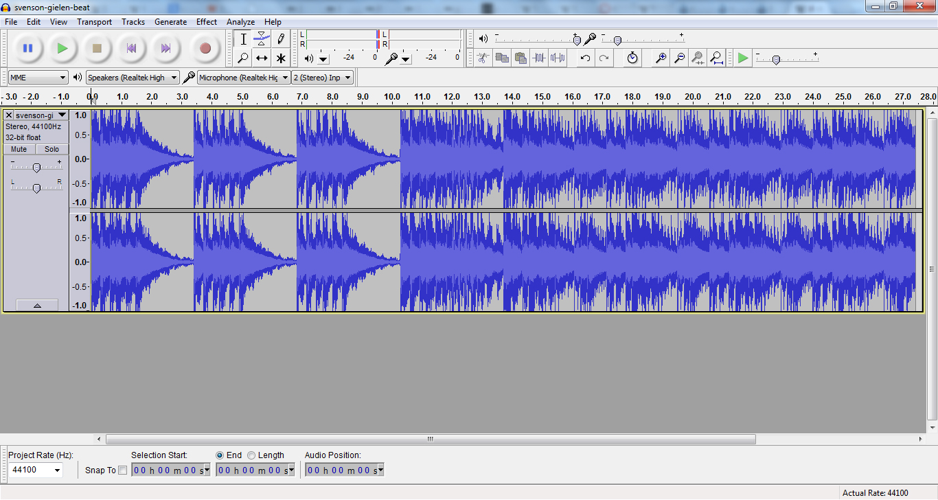 Screenshot of Audacity (Audio Editor)